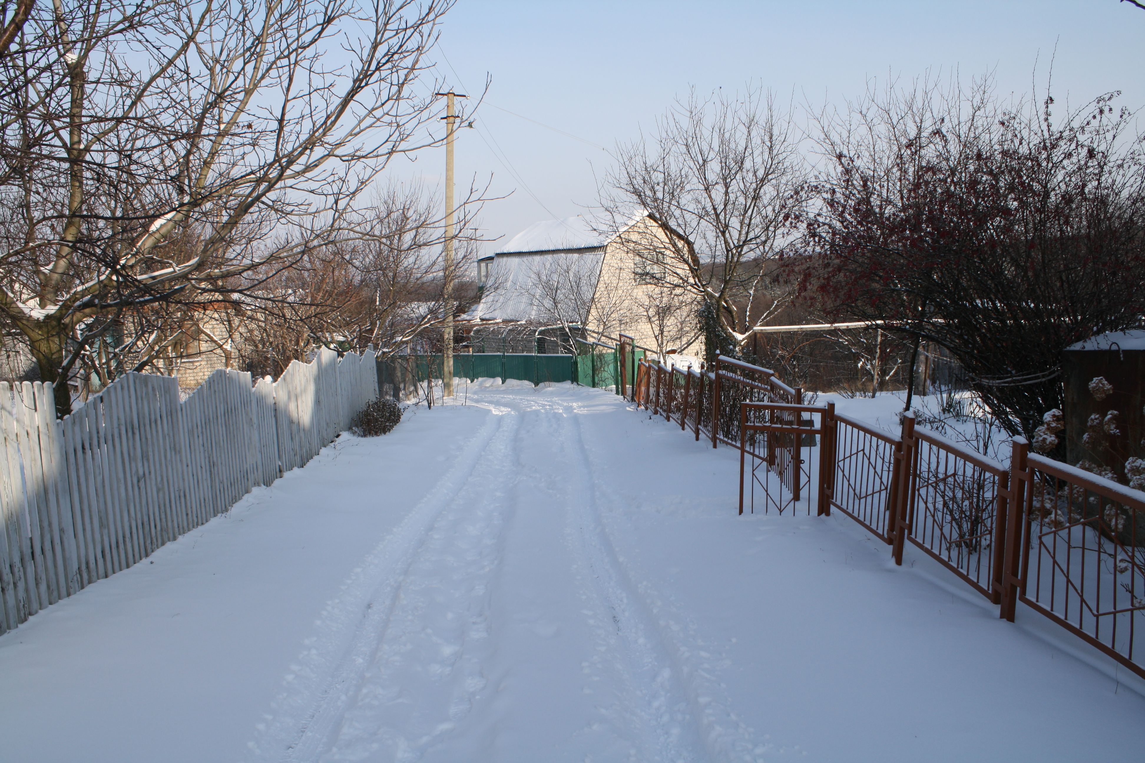 Summer cottages in Khorosheve, Kharkiv Oblast, Ukraine